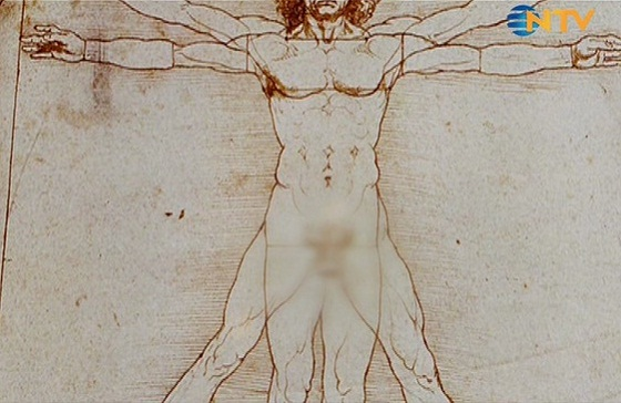 Vitruvian Man by Leonardo da Vinci, Galleria dell' Accademia, Venice (1485-90). A scene from BBC One, Da Vinci: The Lost Treasure documentary. Genitals censored by NTV television of Turkey. Aired 2012-10-14 21:00